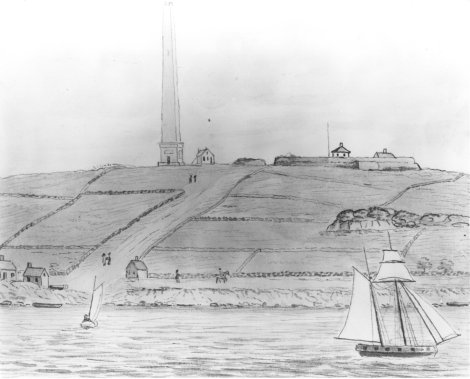 Groton Monument and Fort Griswold Sketch for Barber's Historical Collections of Connecticut (1836) The monument, erected in 1830, commemorates American troops massacred by the ritish following the surrender of Fort Griswold during the American Revolution. Connecticut Historical Society Ref. # 1953.5.116 N2067